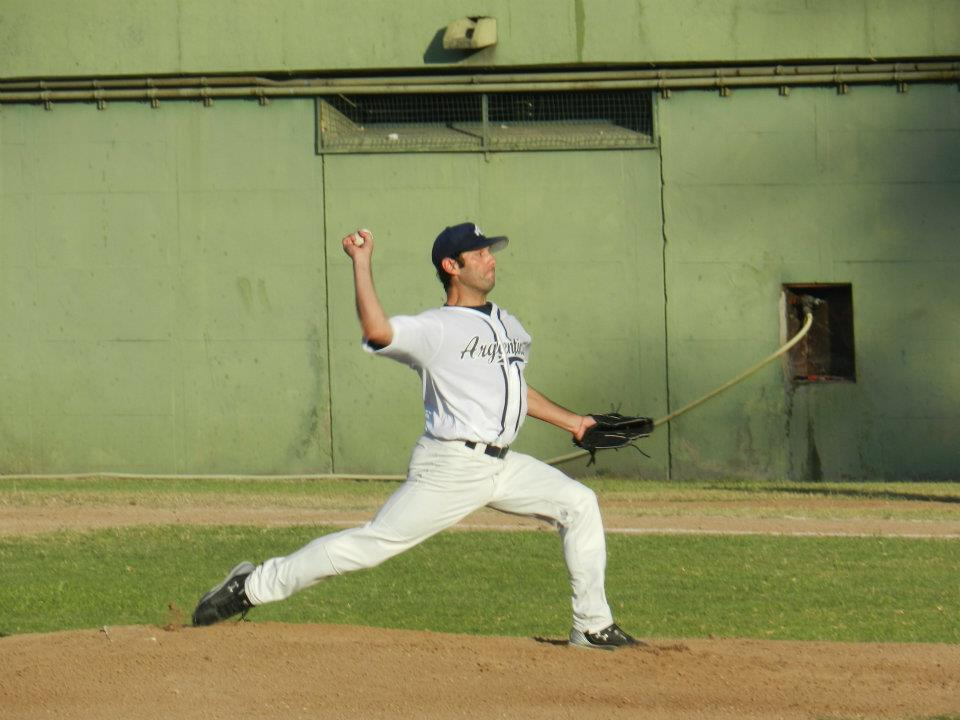 Argentinian Pitcher